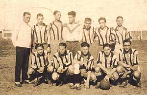 Argentine Club Almagro football team that won the Primera B Metropolitana championship.